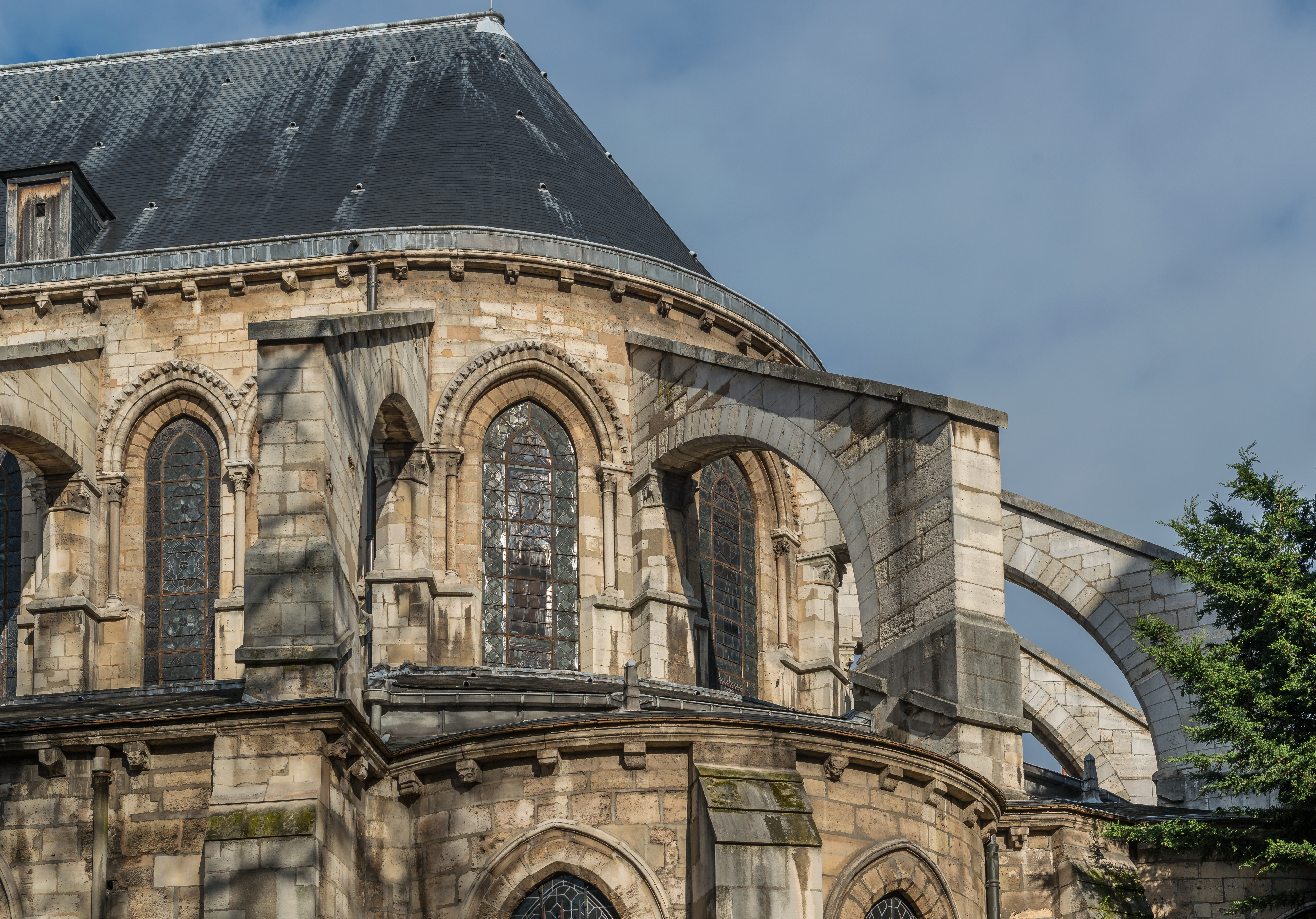 The eastern part of the church of Saint-Germain-des-Prés as seen from South